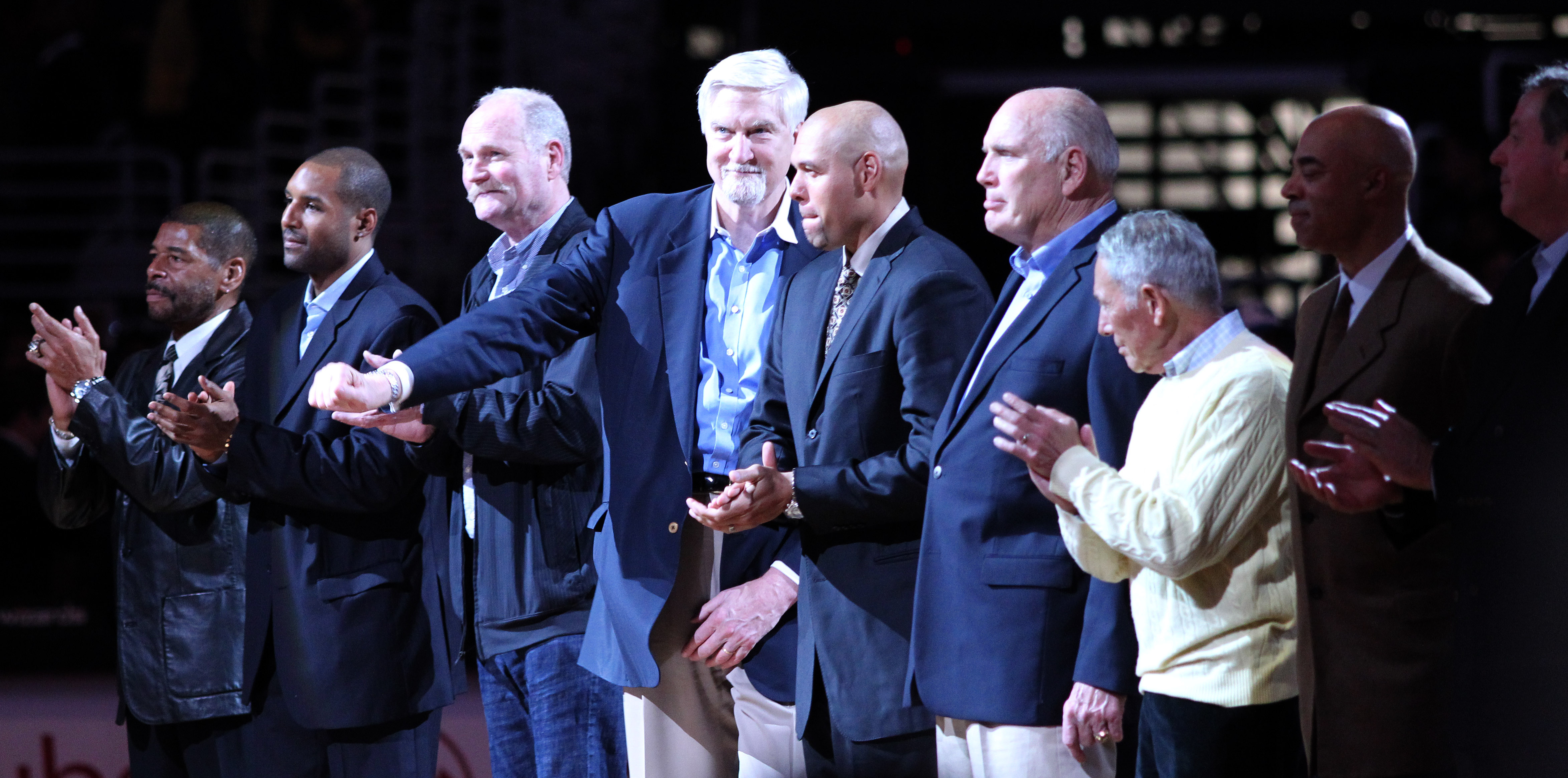 Some combination of Phil Chenier, Bob Dandridge, Kevin Grevey, Wali Jones, Stan Love, Tom McMillen, Tracy Murray, Len “Truck” Robinson, Jerry Sachs, David Vanterpool and Hall of Famer Gus Johnson, honored at a game betweenHawks at Wizards March 24, 2012 at Verizon Center, Washington, DC.